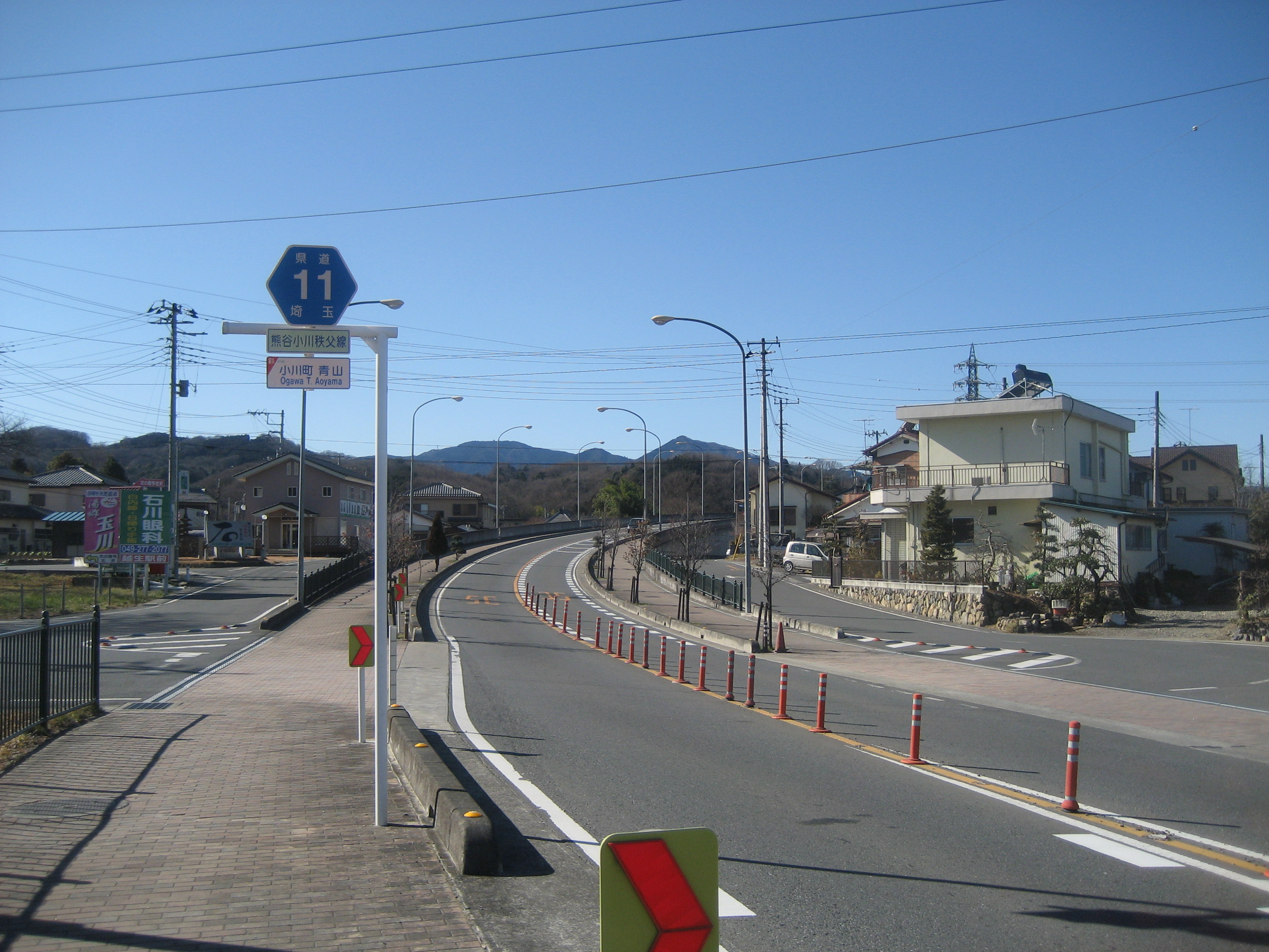 The Saitama Prefectural Road Route 11 in Ogawa Town